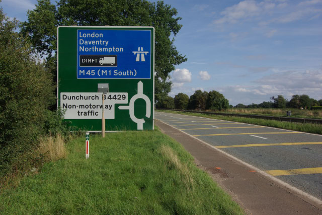 A45 west of Dunchurch The huge road sign indicates that traffic on the A45 is approaching the start of the M45. For many years after the M45 was built, the A45 continued through Dunchurch and on to Daventry; eventually a set of slip roads were built east of the village to allow traffic off the M45 back on to the A45, thus by-passing Dunchurch. The old A45 was then demoted to become the B4429.